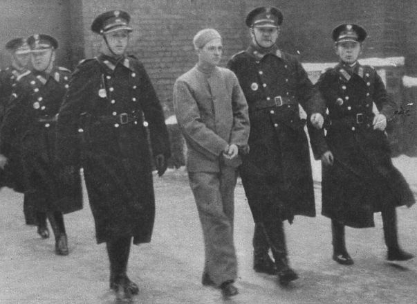 Sentenced to death criminal, Nikifor Maruszeczko escorted by the Polish police in 1938.